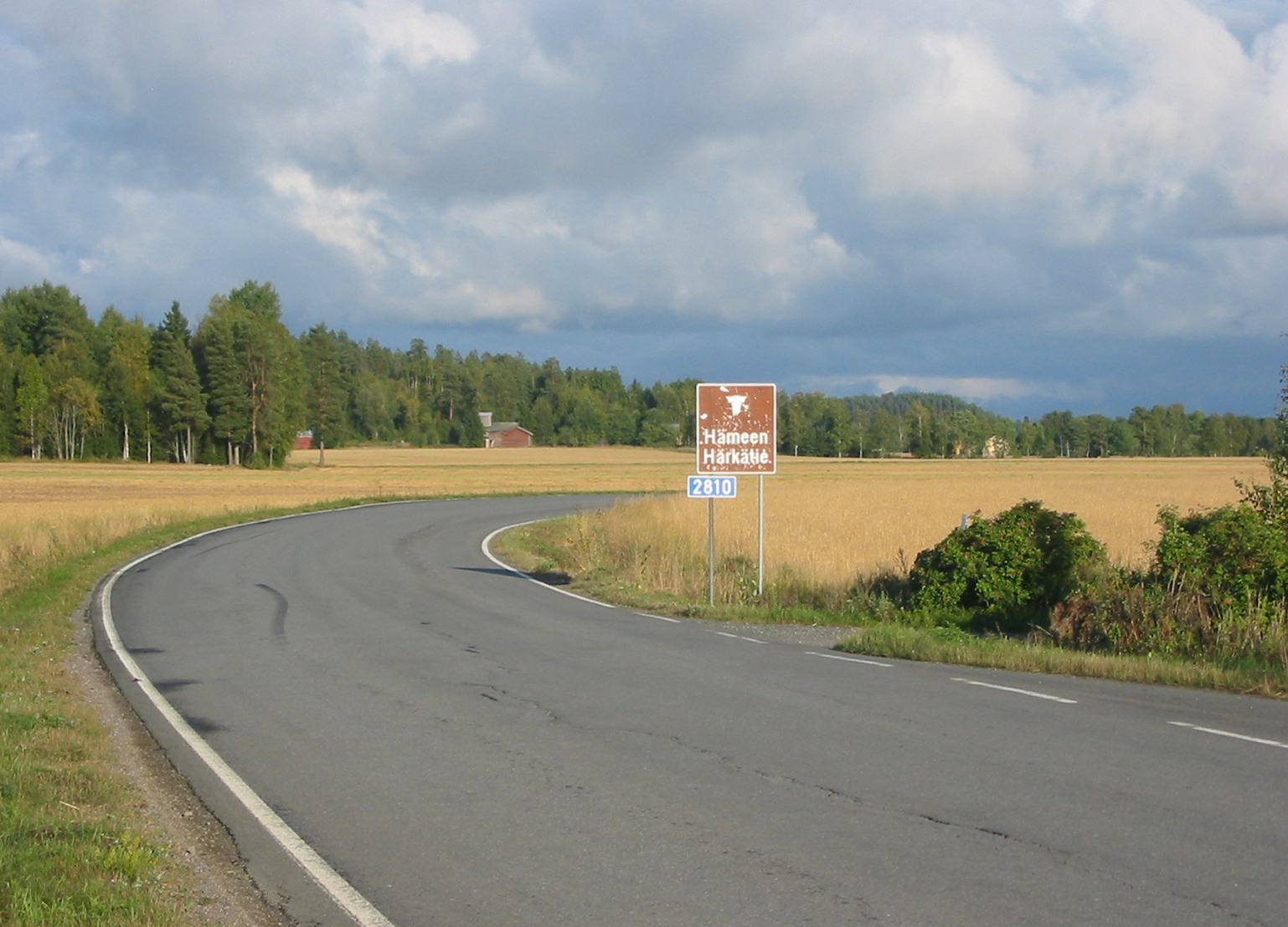 Connecting road 2810 in Lahti, Somero, Finland